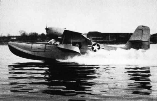 A Grumman J4F-2 Widgeon seaplane used as the testbed for the Martin P5M Marlin hull in 1948. The Widgeon was fitted with a downscaled Marlin hull.